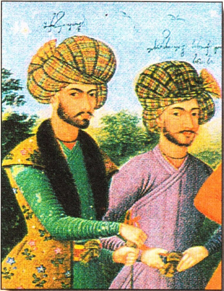 Givi Amilakhvari and Archil of Imereti